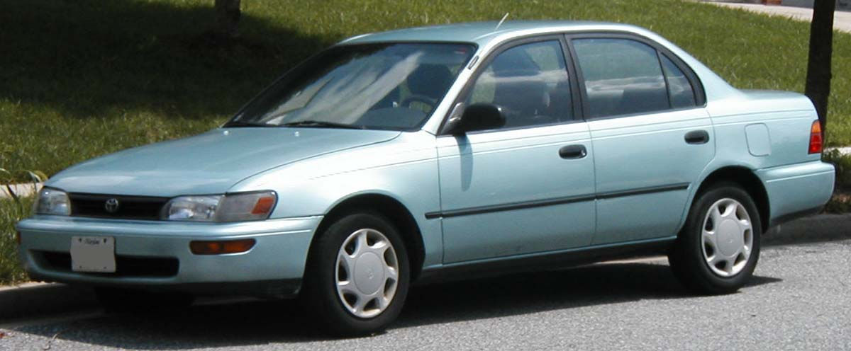 1992-1997 Toyota Corolla photographed in USA.